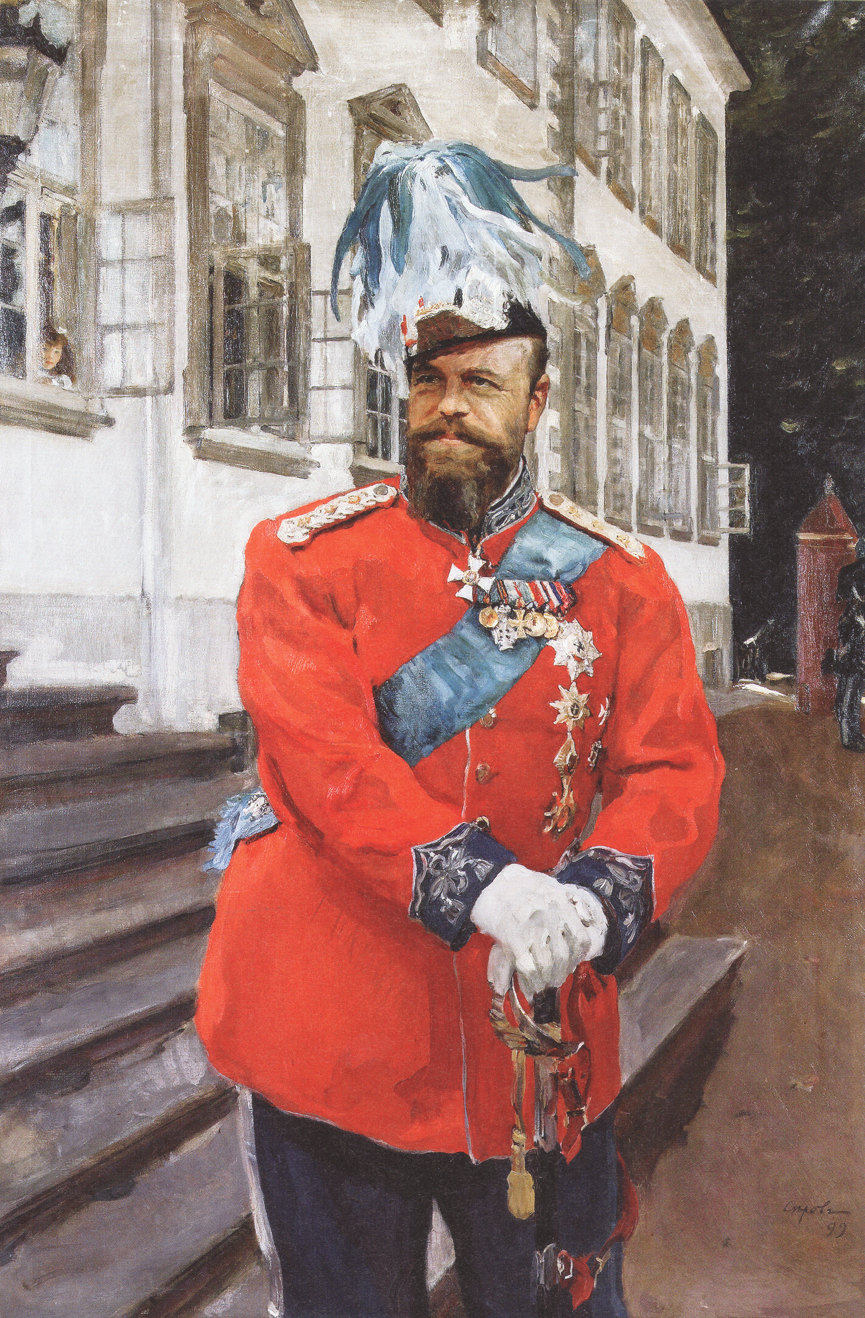 Alexander III in Danish Royal Life Guards Uniform (Danish Royal Life Guards Collection, Copenhagen)